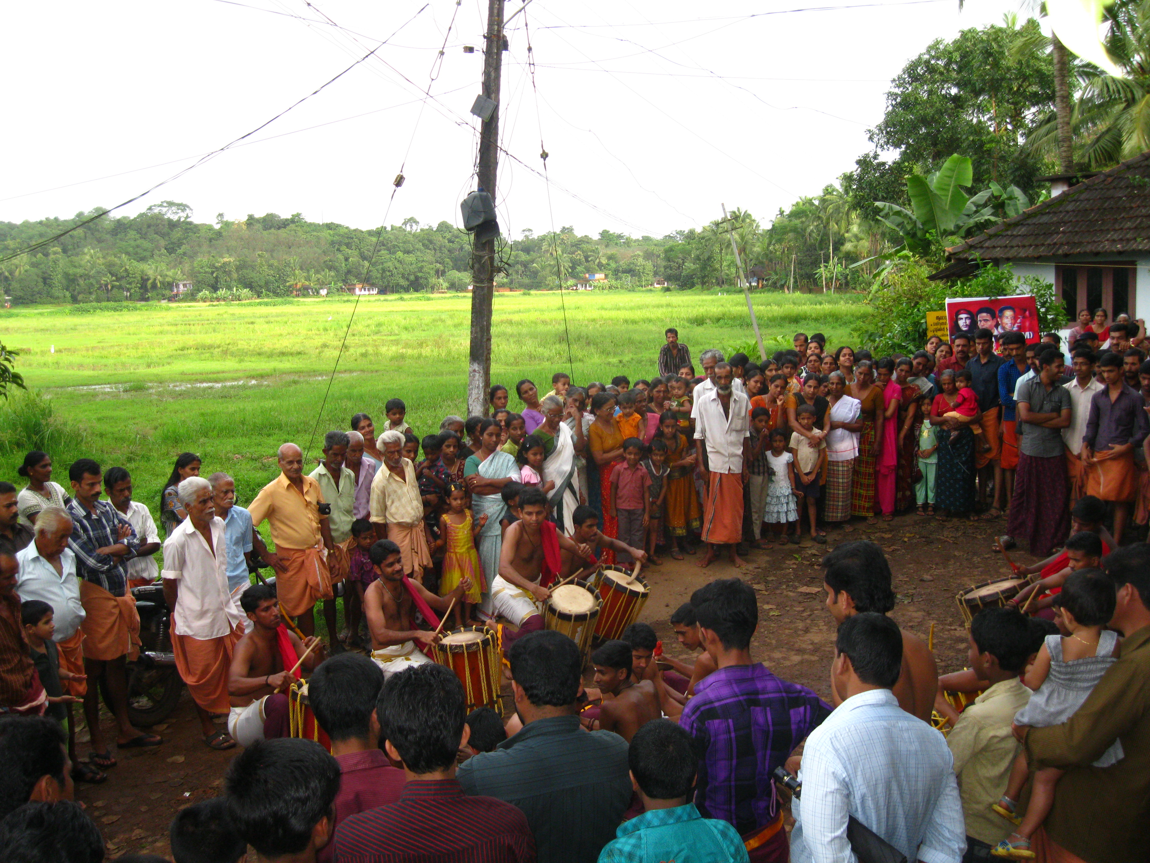 onam celebration at BLATHUR